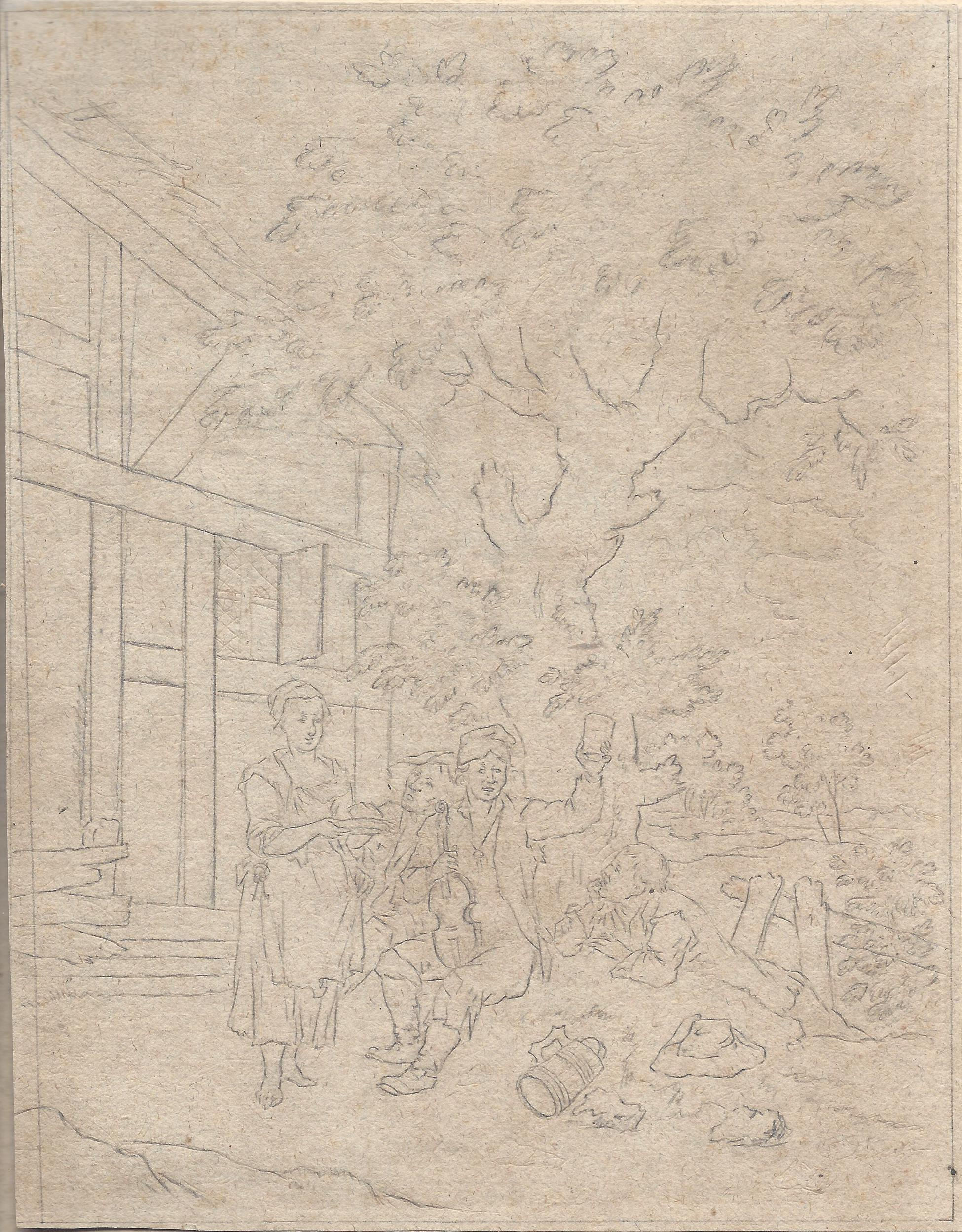 Johann Michael Frey (1750-1818), Genrebild mit Geiger,Zeichnung.